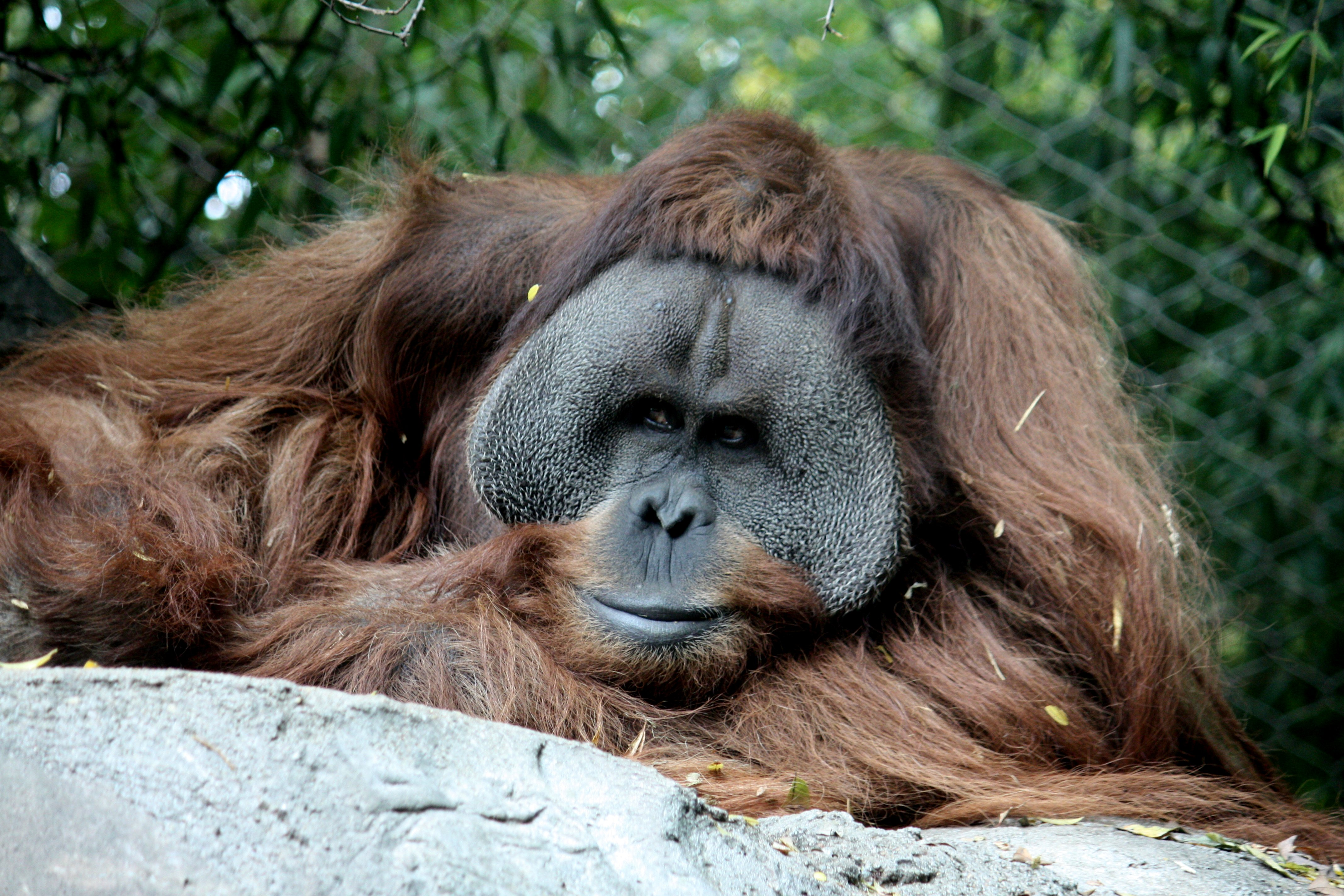 Pongo pygmaeus abeli at Louisville Zoo